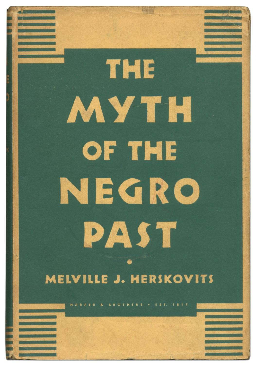 1st edition